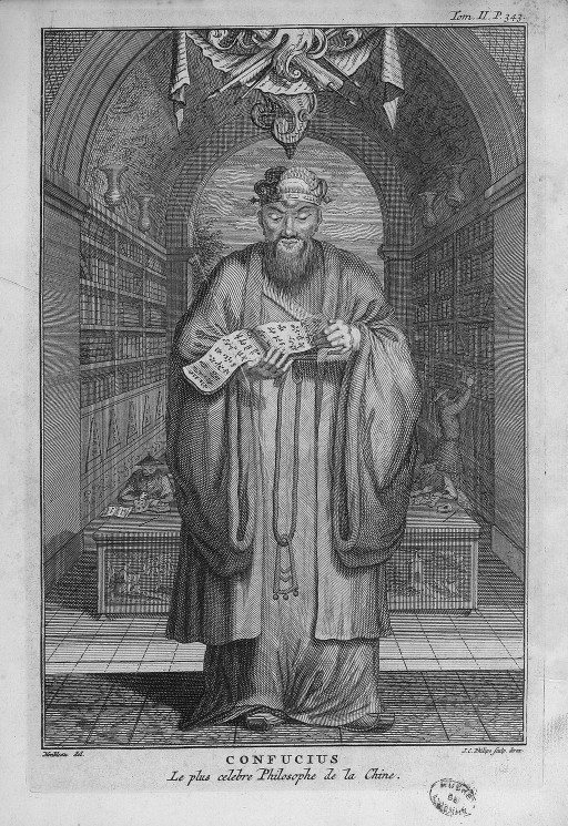 "Confucius: The Most Celebrated Philosopher of China." From the Dutch reprinting of Du Halde's 1735 Description of China, Vol. II, p. 343.